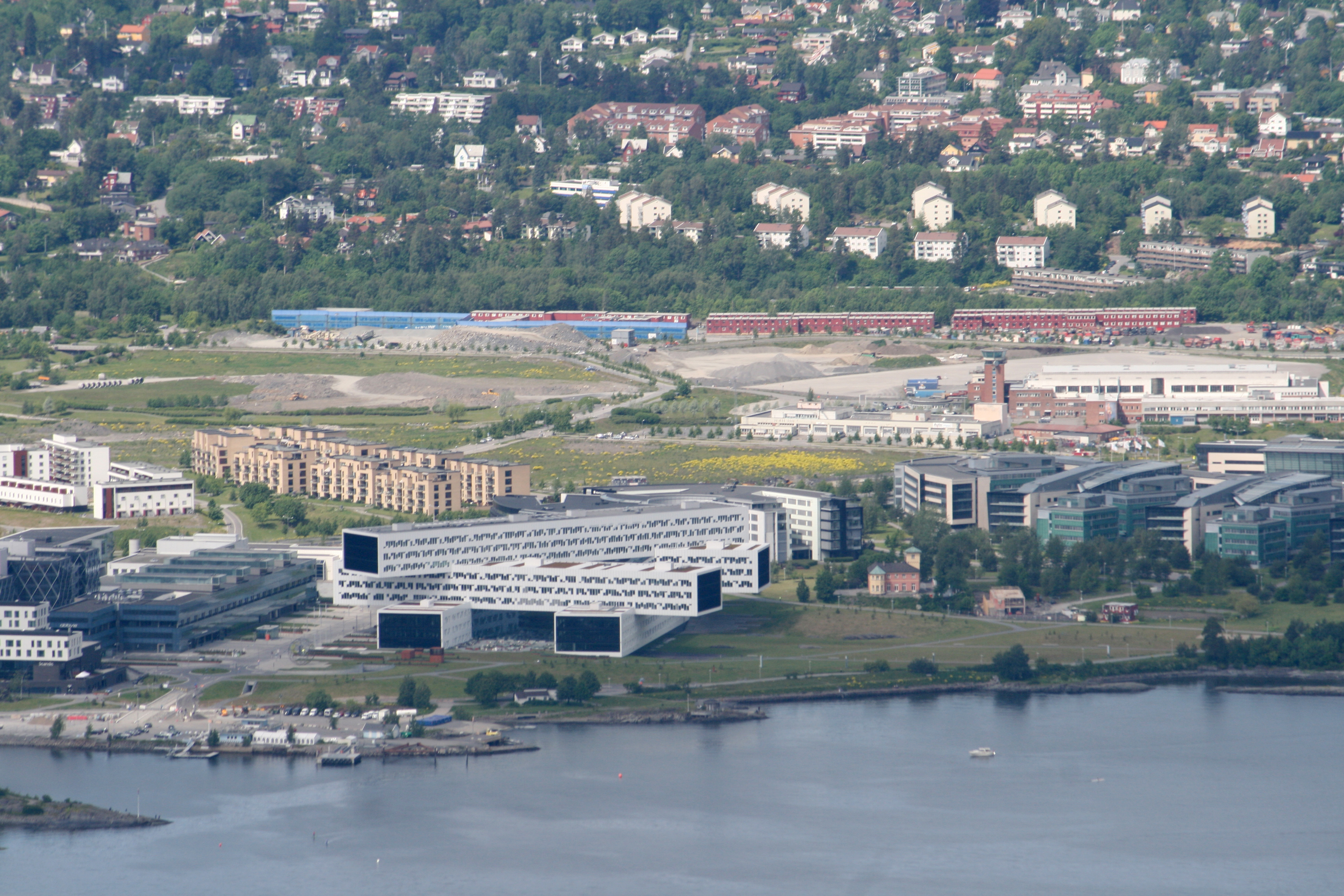 Aerial photograph from June 14th, 2015.